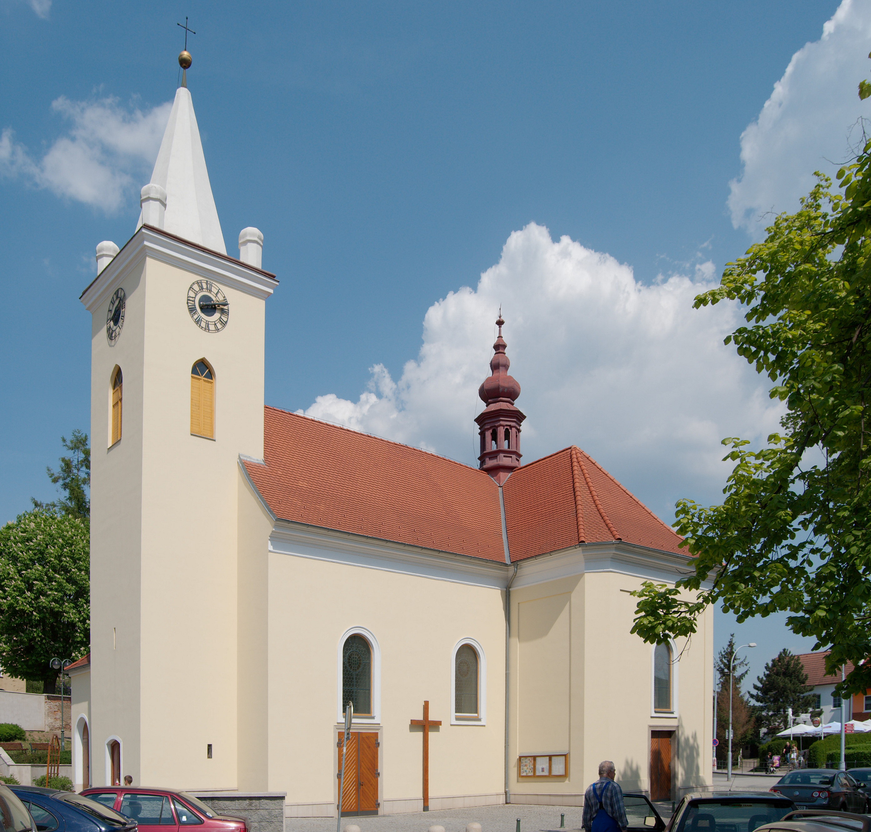 Brno-Řečkovice - Saint Lawrence church from southwest